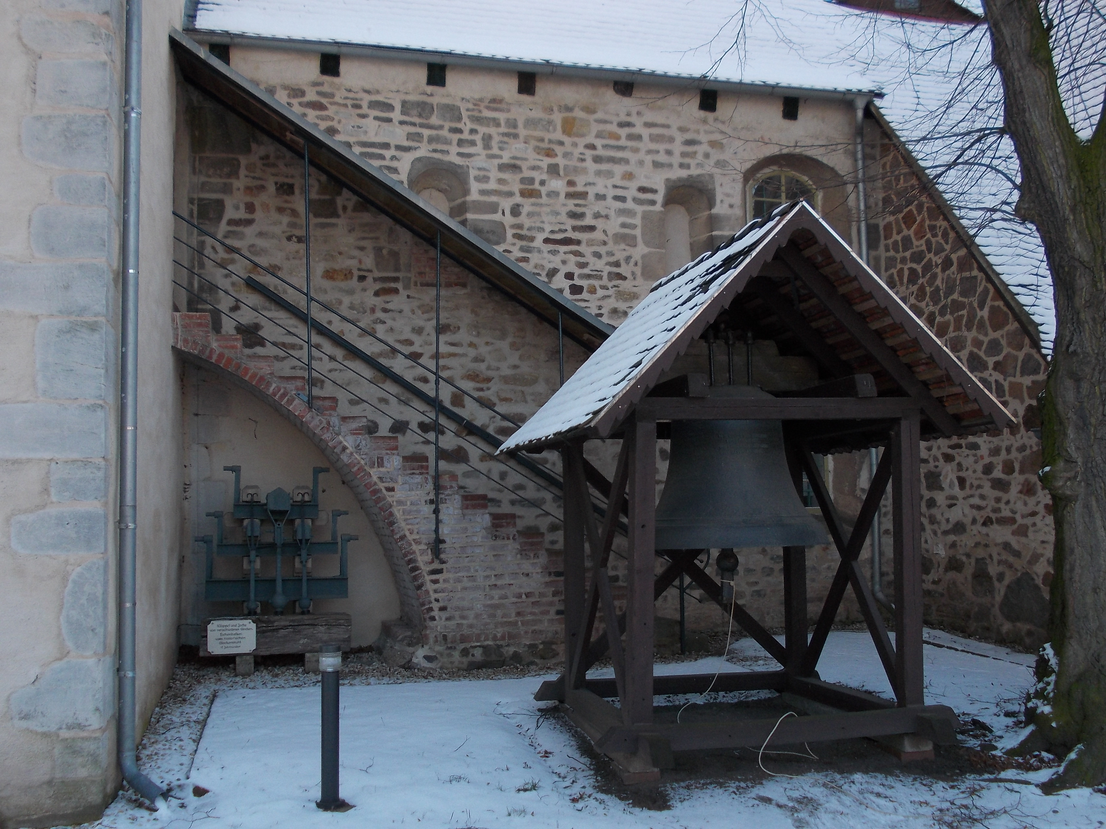 St. Peter's Church in Osmünde (Kabelsketal, district of Saalekreis, Saxony-Anhalt)